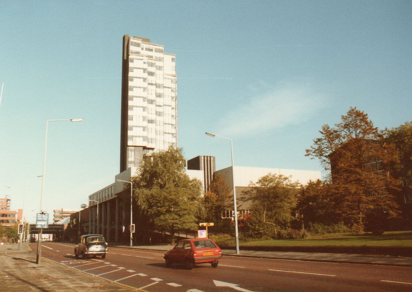 Mathematics Tower, University of Manchester. The picture was taken from Oxford Road in 1985. The building was designed by Scherrer and Hicks Architects and completed in 1968. It was demolished in 2005.